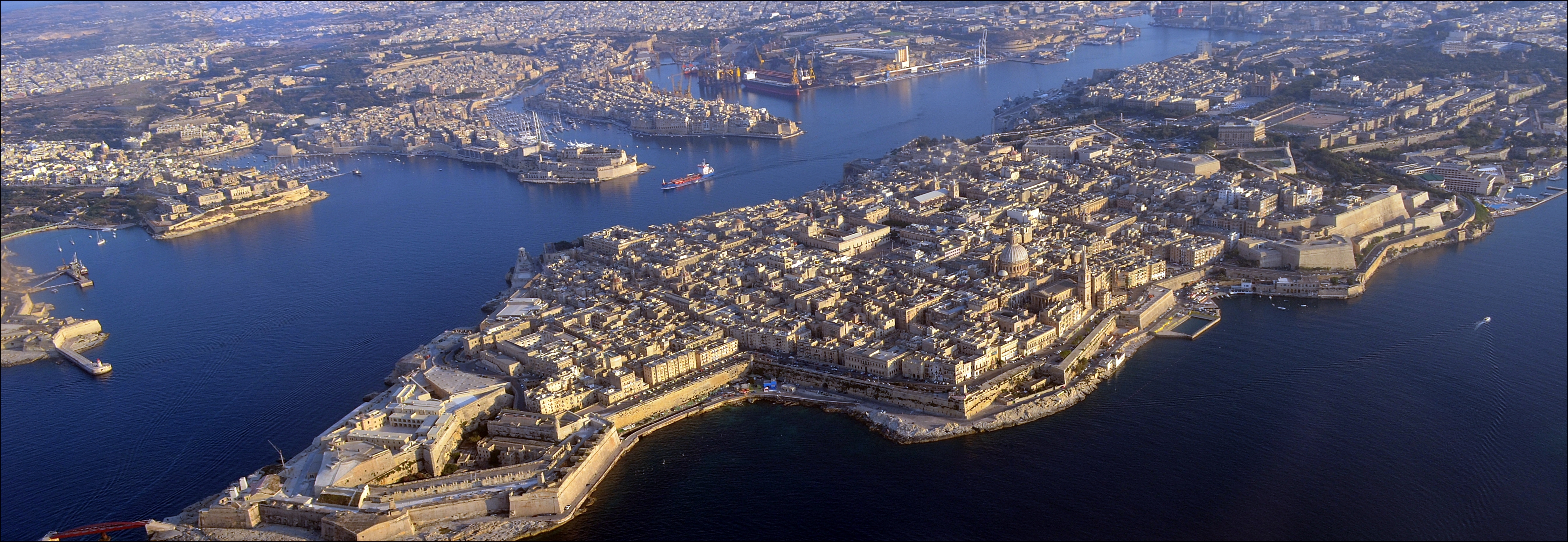 This media is about Maltese cultural property with inventory number 01591.